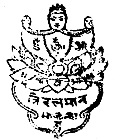 Trader's mark of Lhasa-based Nepalese merchant Triratna Man Tuladhar showing a Buddhist ritual bowl. It was stamped on mail and cargo.